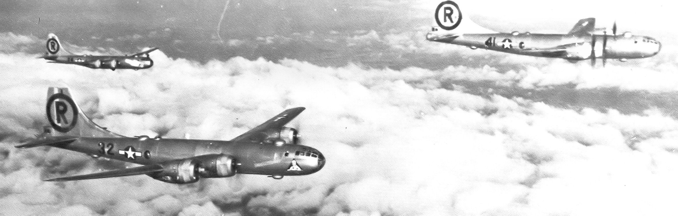 6th Bombardment Group B-29 Formation 1945. In foreground is Snuggiebunny Boeing B-29-55-BW Superfortress 44-69667. Aircraft survived the war and flew combat missions with the 98th Bomb Group in Korean War. Scrapped at Tinker AFB, March 1954.